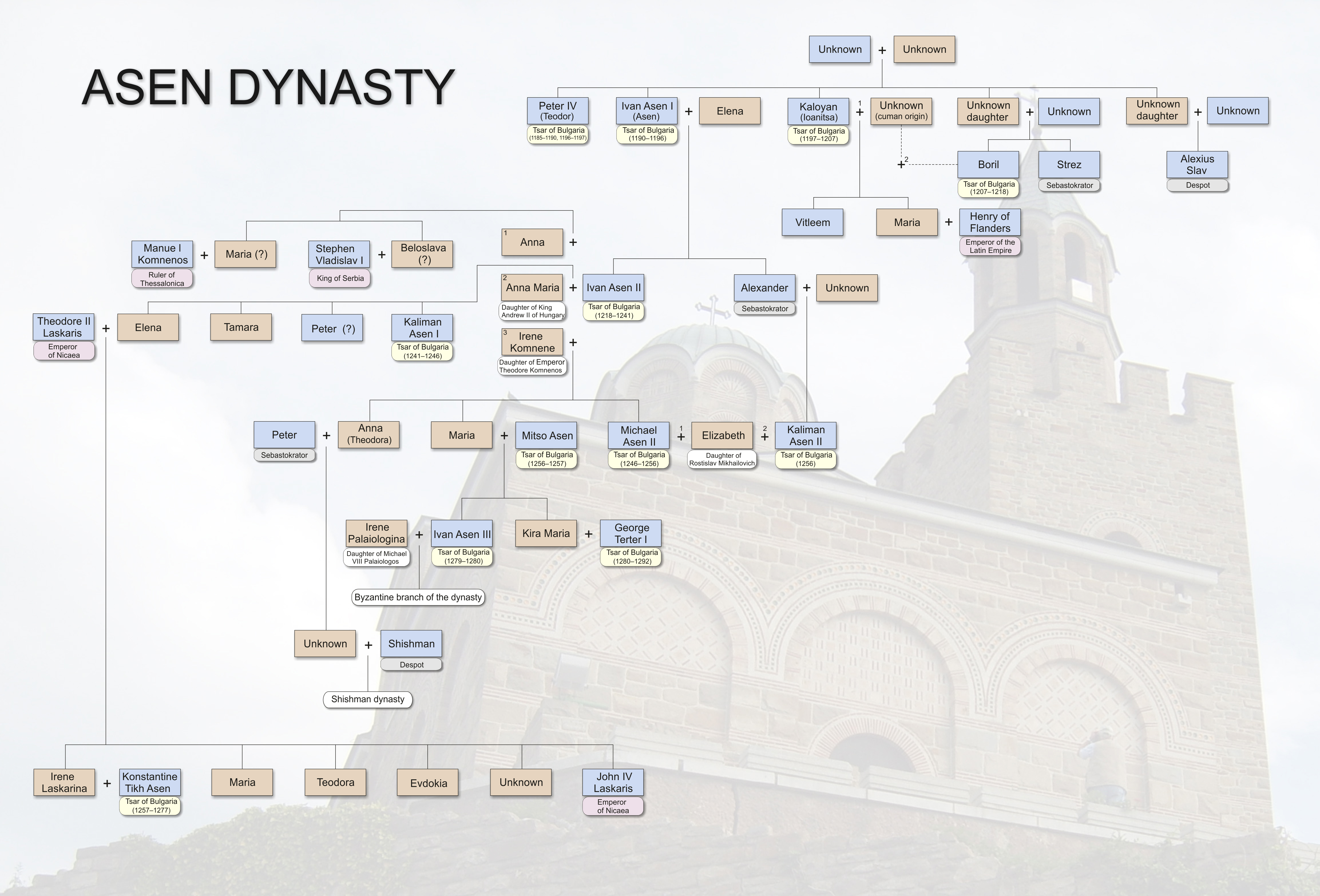 Genealogy of the Asen dynasty, rulers of the Second Bulgarian Empire.